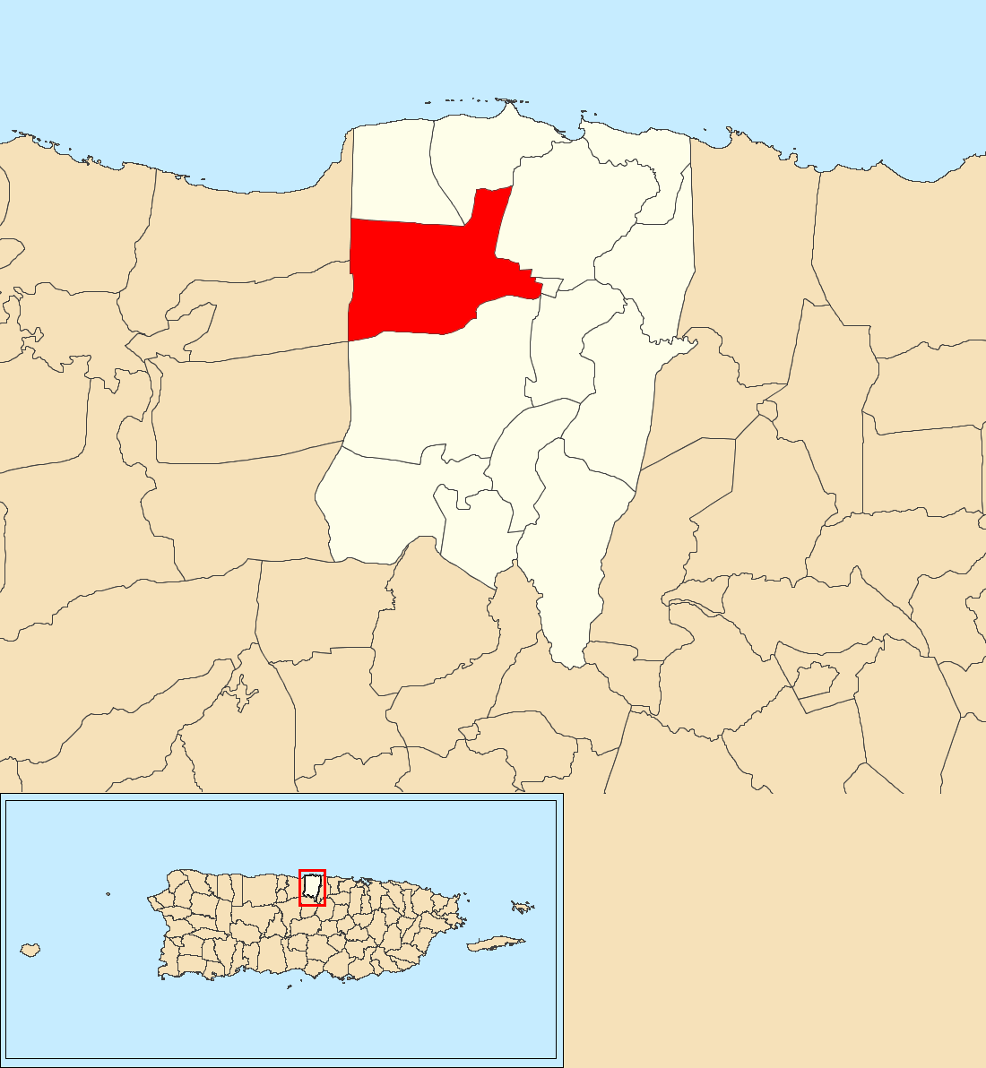 Algarrobo, Vega Baja, Puerto Rico locator map